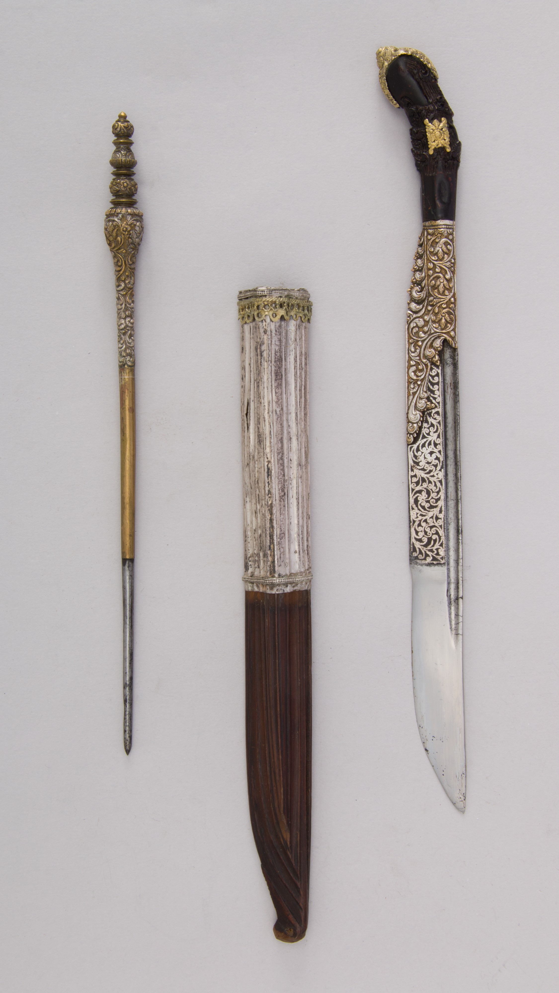 Sri Lankan; Dagger (Piha kaetta) with stylus and sheath; Daggers